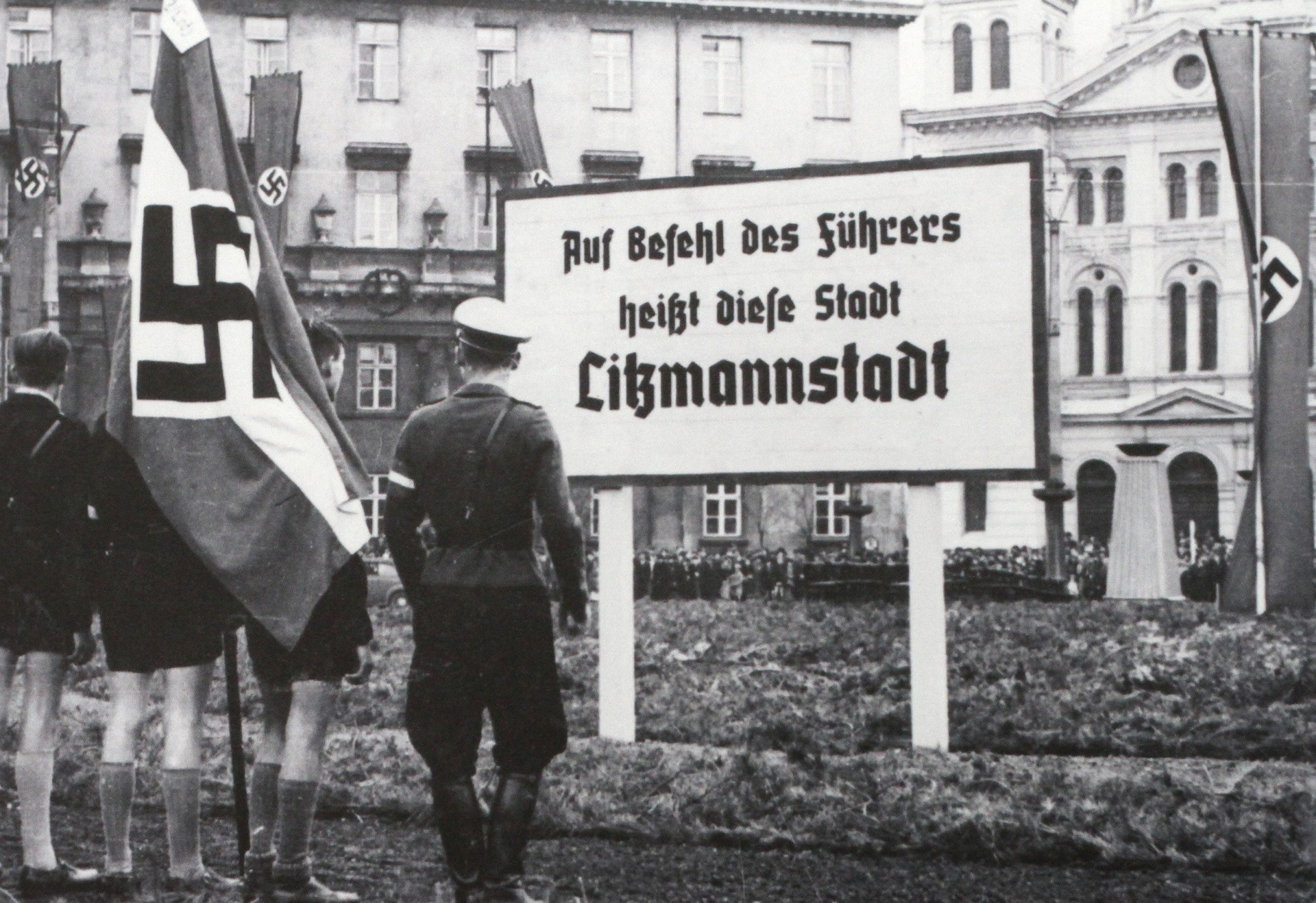 Photo from Nazi-occupied Łódź just after its renaming for "Litzmannstadt" (1940). A board announcing a new name for a city. The sign says, "By order of the Fuhrer, this city is called Litzmannstadt".